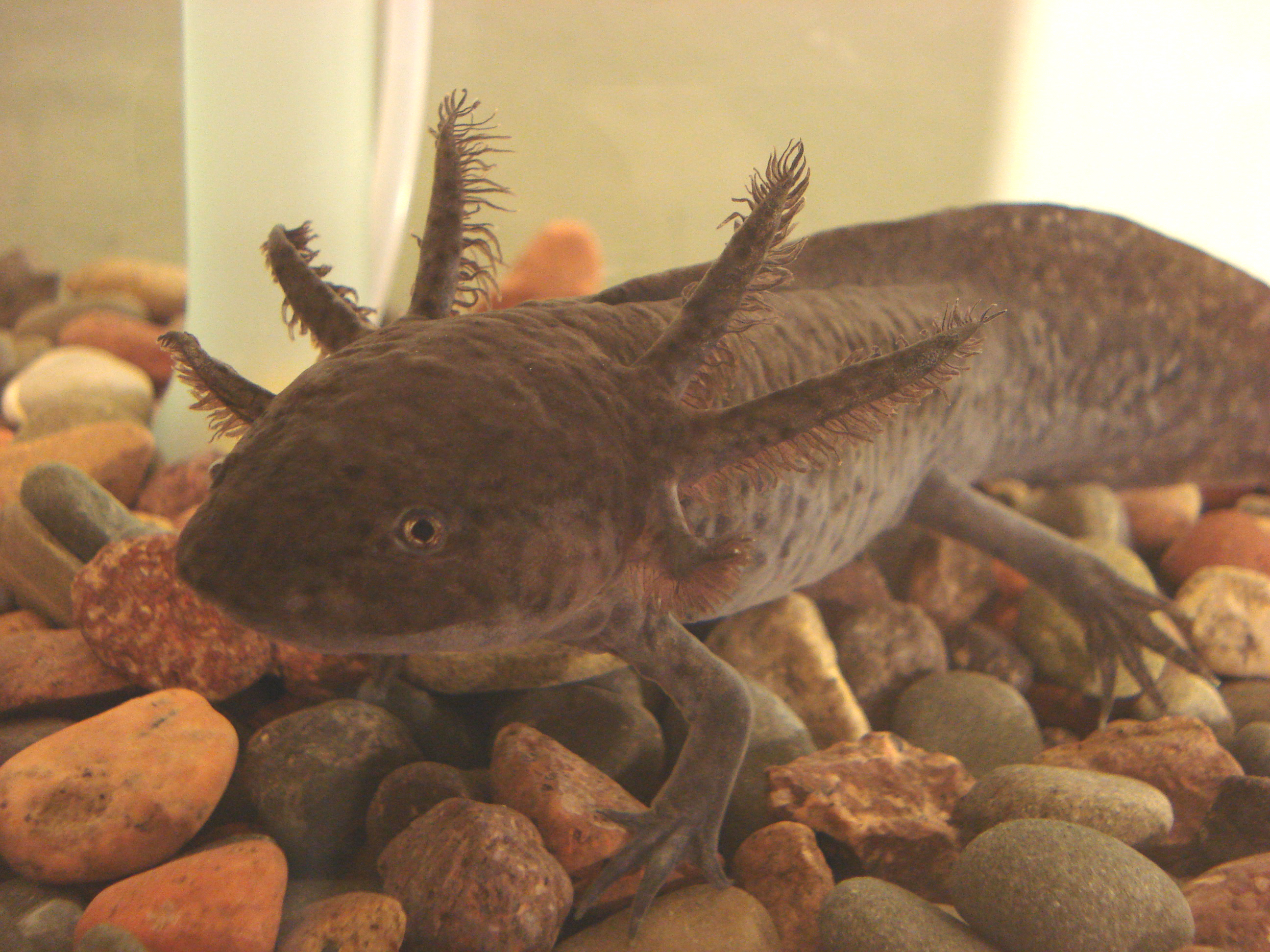 An axolotl (Ambystoma mexicanum). Photo taken at home